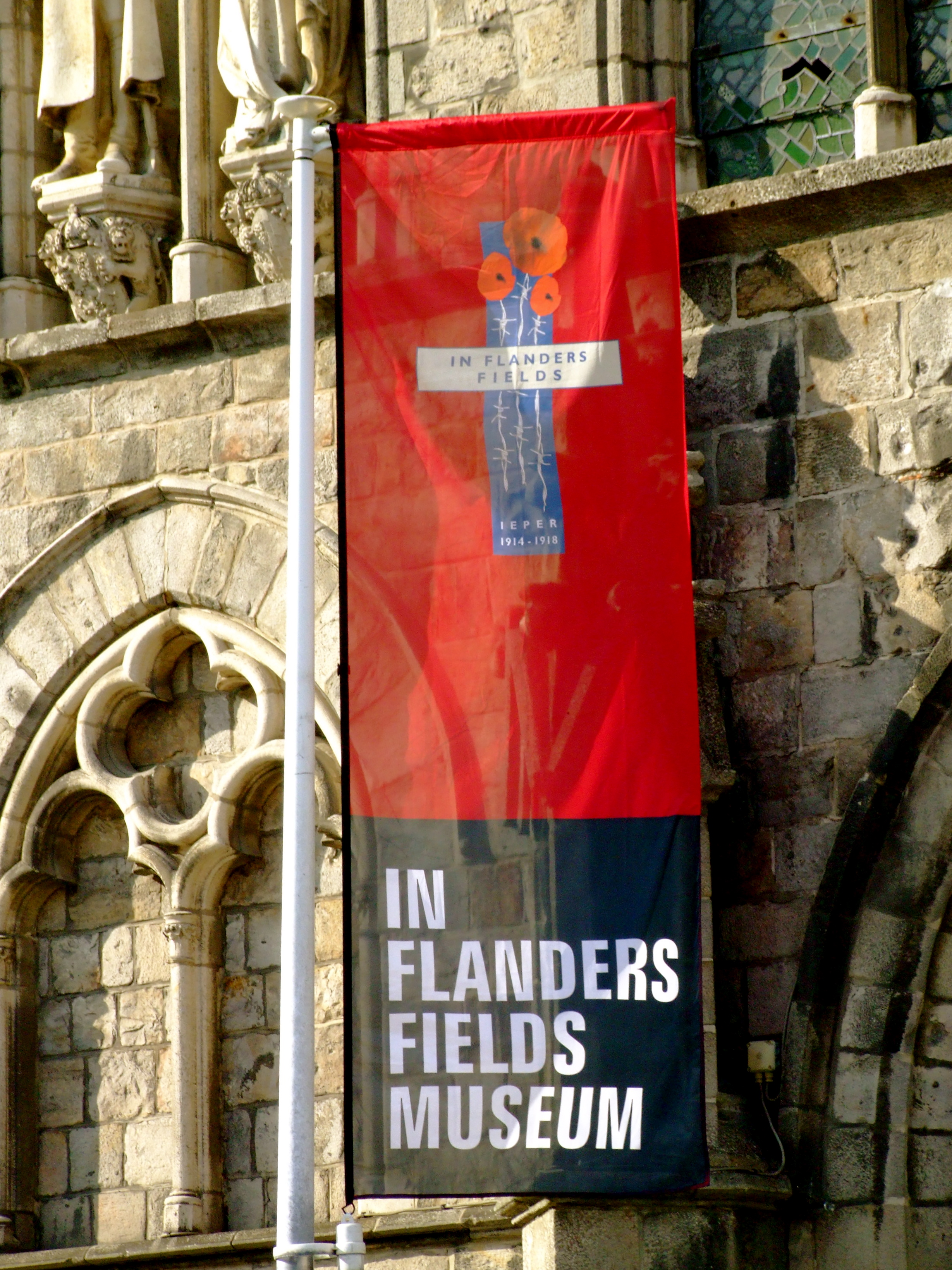 Flag outside of the In Flanders Fields Museum in Ieper, Belgium